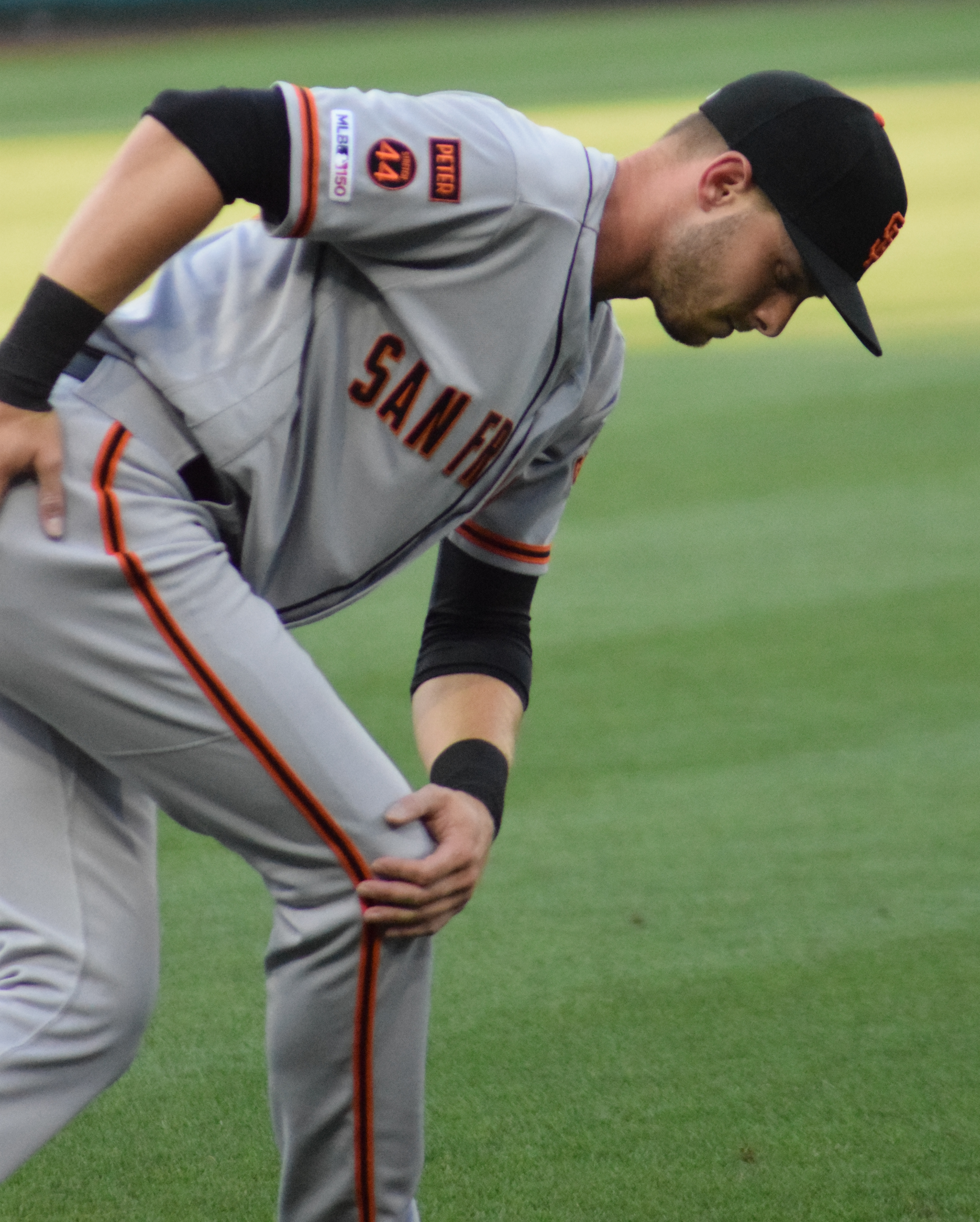 Austin Slater of the San Francisco Giants at Citizens Bank Park before a 2019 game in Philadelphia.